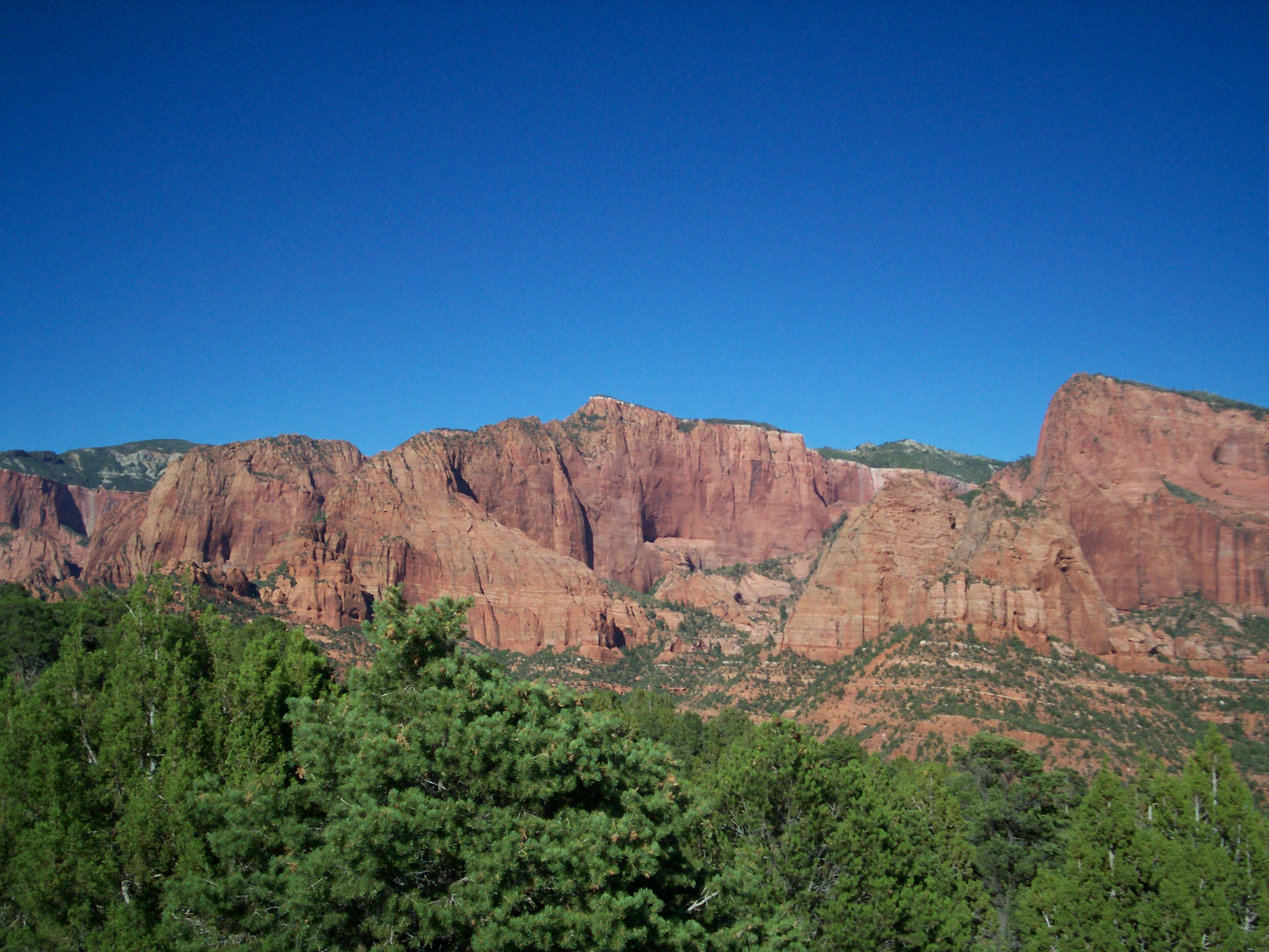 Kolob Finger Canyons, Zion National Park.